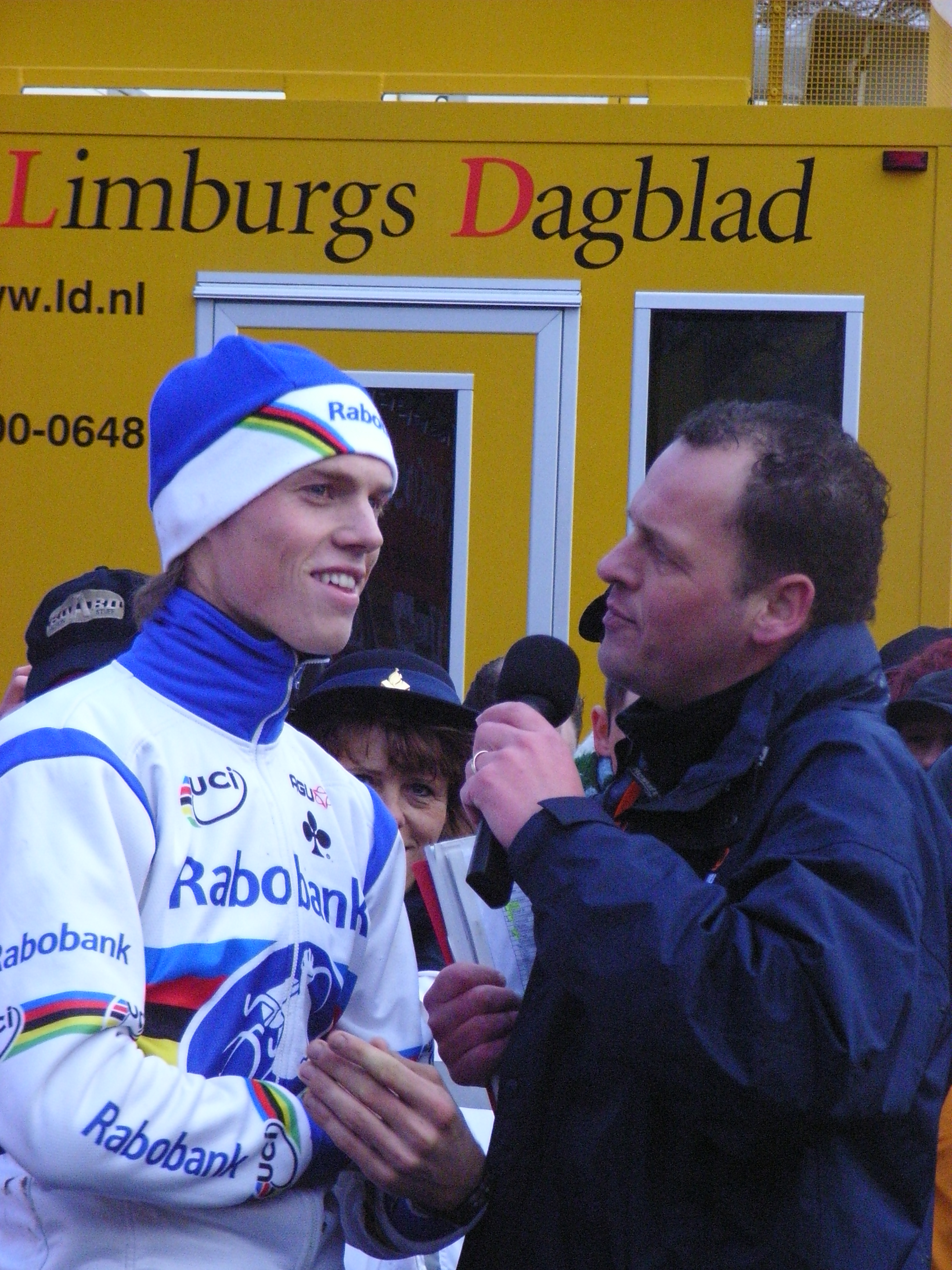 World Champion cyclecross Lars Boom in Heerlen.